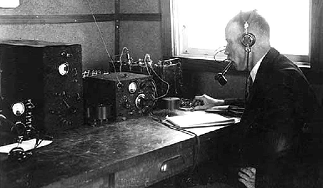 Albert Hoyt Taylor, senior radio scientist at the US Naval Research Laboratory until his retirement after World War II.